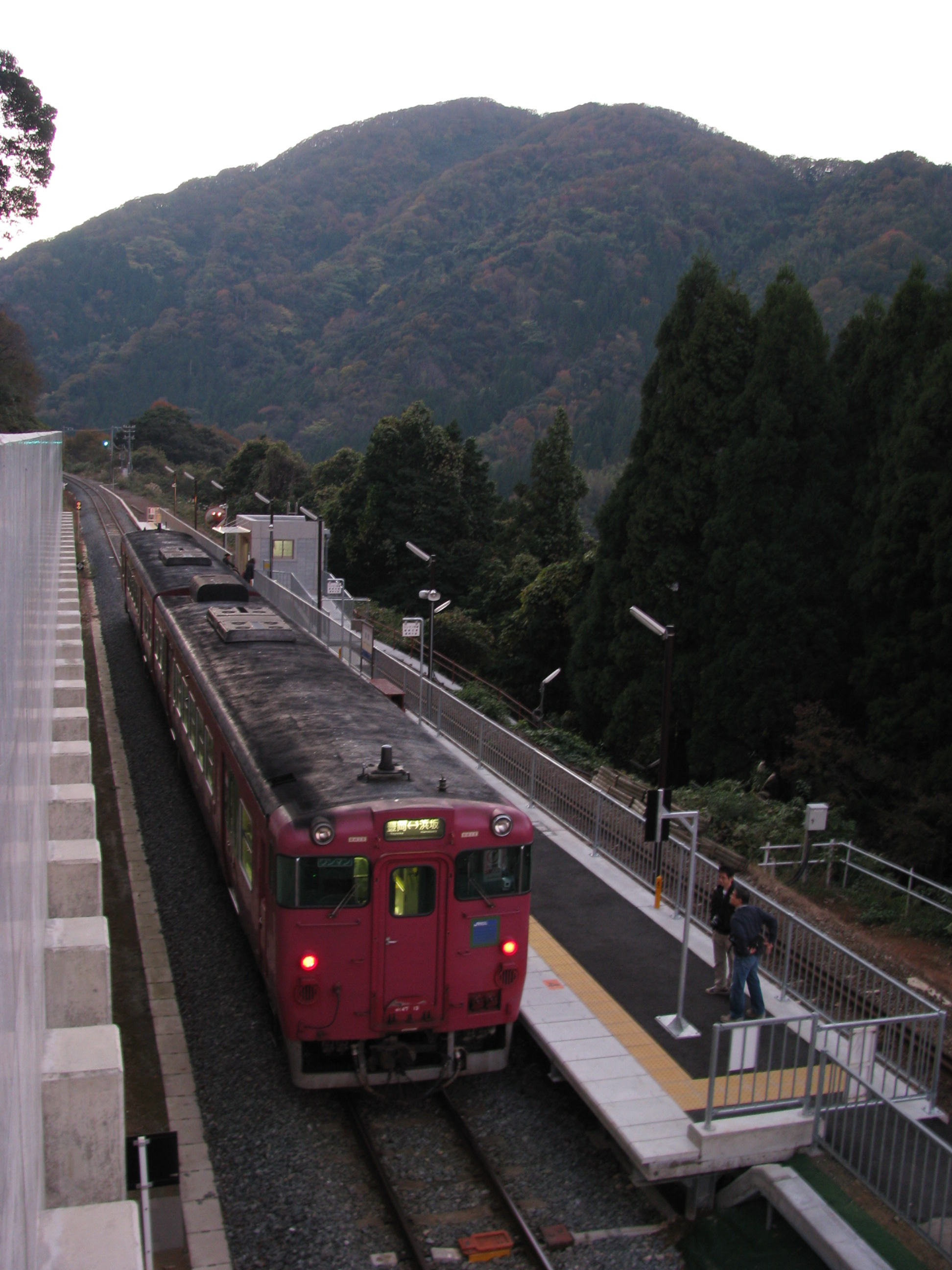 The Amarube Station of Sanin Main Line. This place is Kami, Mikata District, Hyōgo Prefecture, Japan.